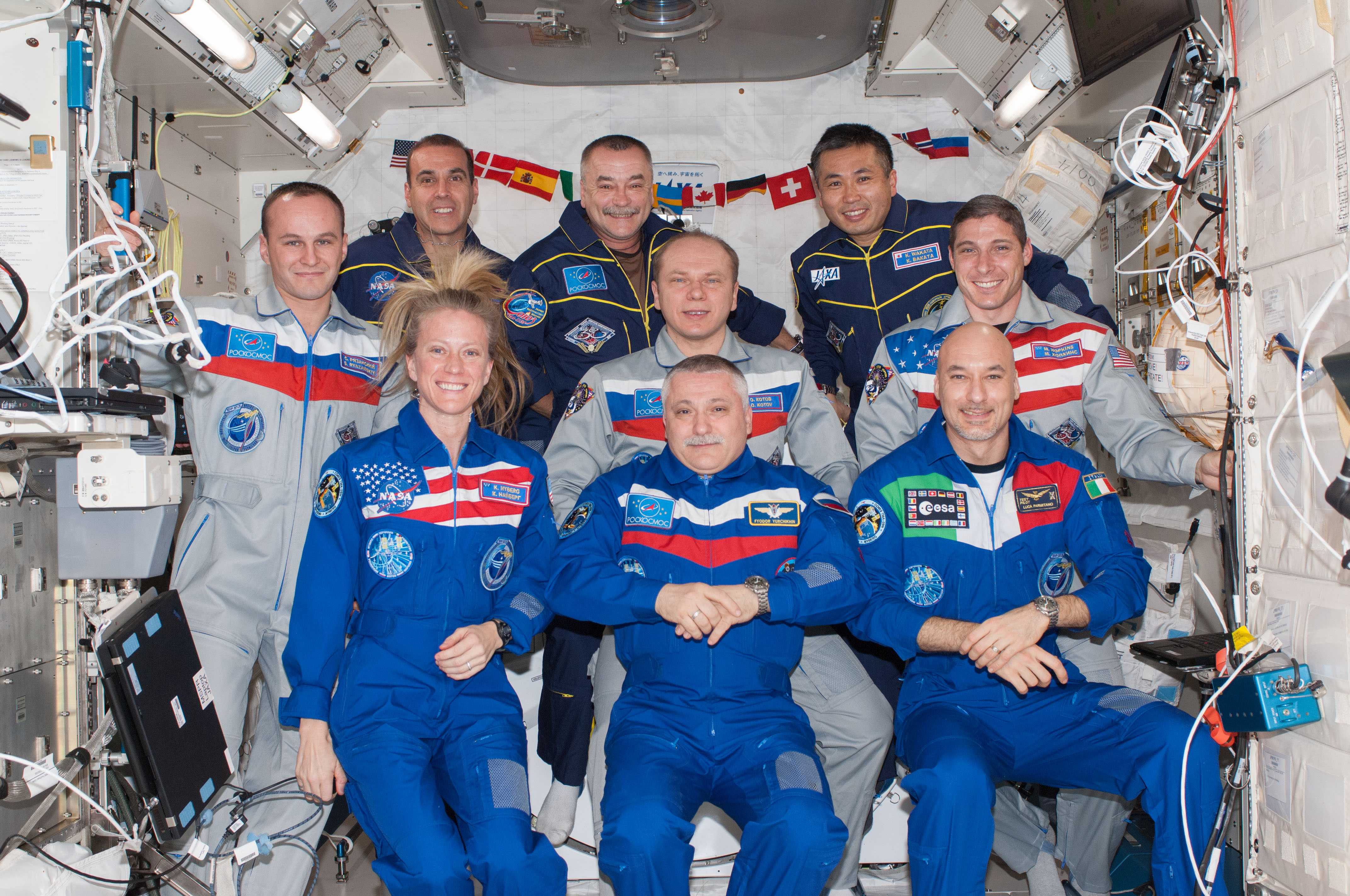 Nine crew members gather for a group portrait in the International Space Station's Kibo laboratory following a joint crew news conference. This is the first time since October 2009 that nine people have resided on the station without the presence of a space shuttle. Pictured on the front row are Russian cosmonaut Fyodor Yurchikhin (center), Expedition 37 commander; NASA astronaut Karen Nyberg and European Space Agency astronaut Luca Parmitano, both Expedition 37 flight engineers. Pictured on the center row are Russian cosmonaut Oleg Kotov (center), Expedition 38 commander; Russian cosmonaut Sergey Ryazanskiy (left) and NASA astronaut Michael Hopkins, both Expedition 38 flight engineers. Pictured from the left (back row) are NASA astronaut Rick Mastracchio, Russian cosmonaut Mikhail Tyurin and Japan Aerospace Exploration Agency astronaut Koichi Wakata, all Expedition 38 flight engineers. The Expedition 37 crew members will undock from the station in their Soyuz TMA-09M spacecraft on Nov. 10, ending a five-and-a-half month stay.